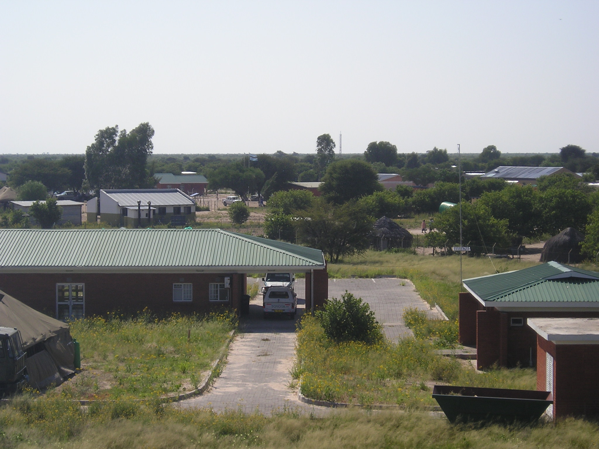 Owned by Author